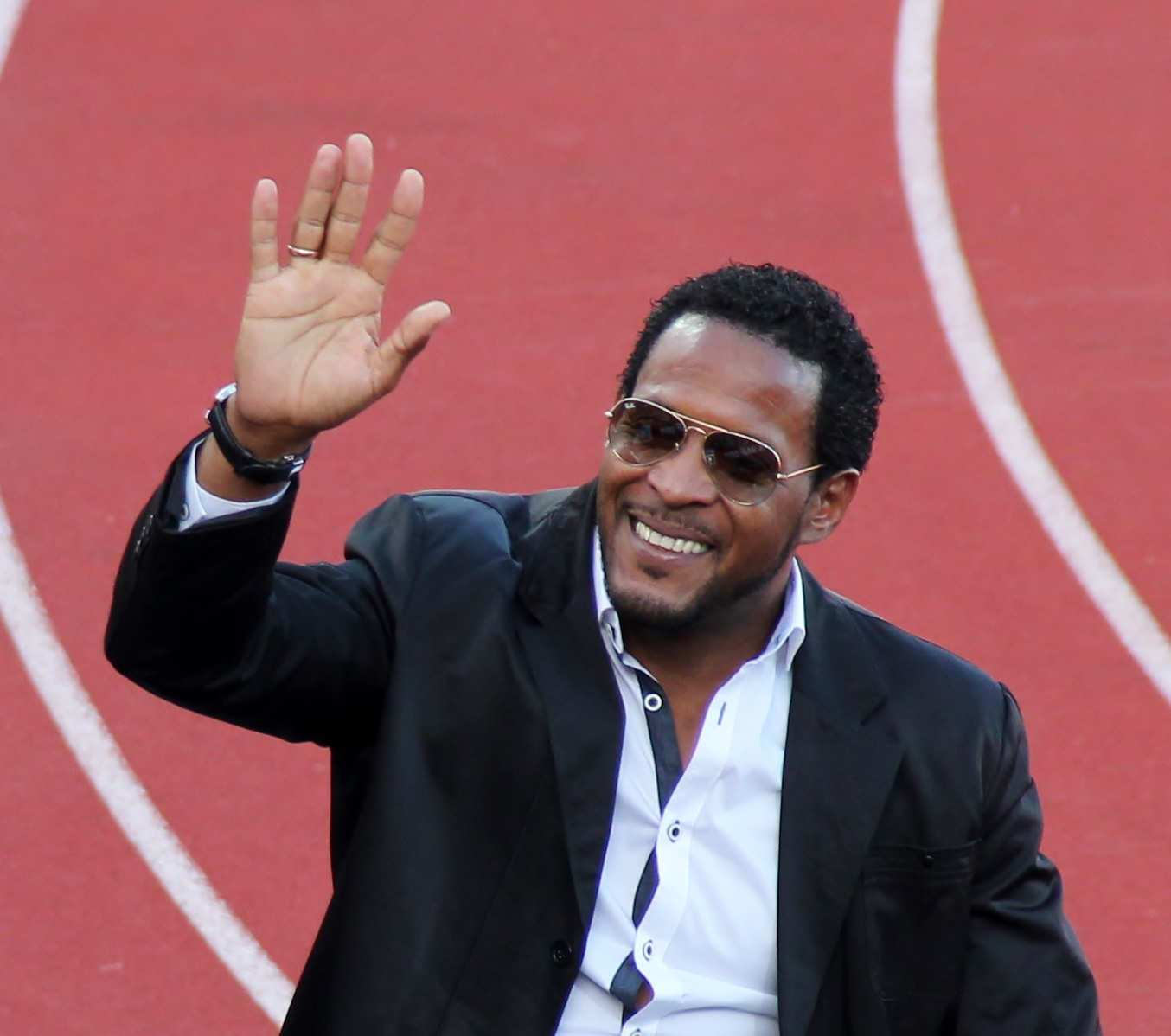 Javier Sotomajor at the 2015 Bislett Games